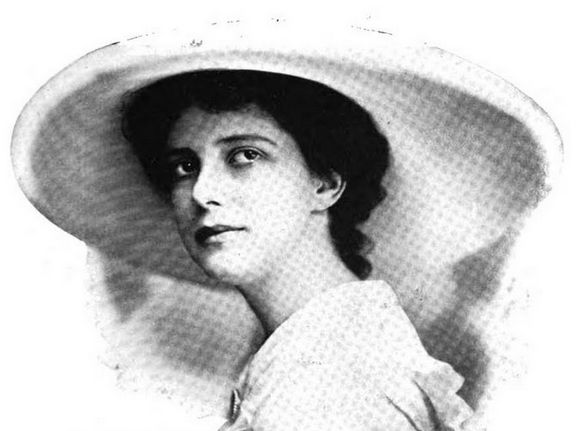 Leila McIntyre, from a 1911 publication.